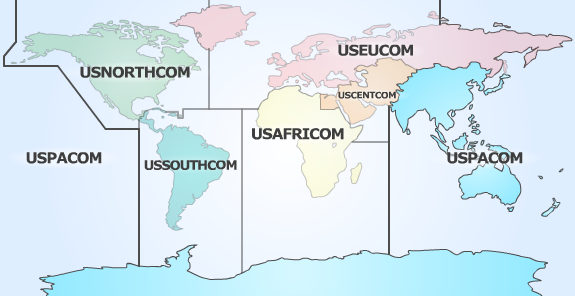 Geographic Distribution of the Commands of the United States Army